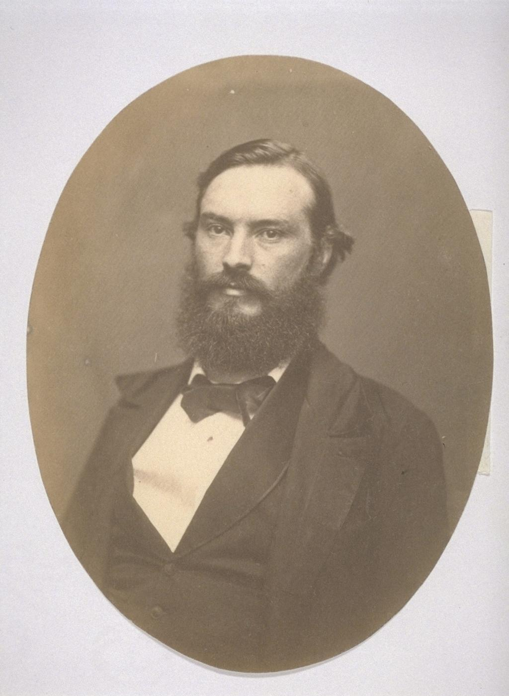 William Henry Brewer (1828-1910), American botanist